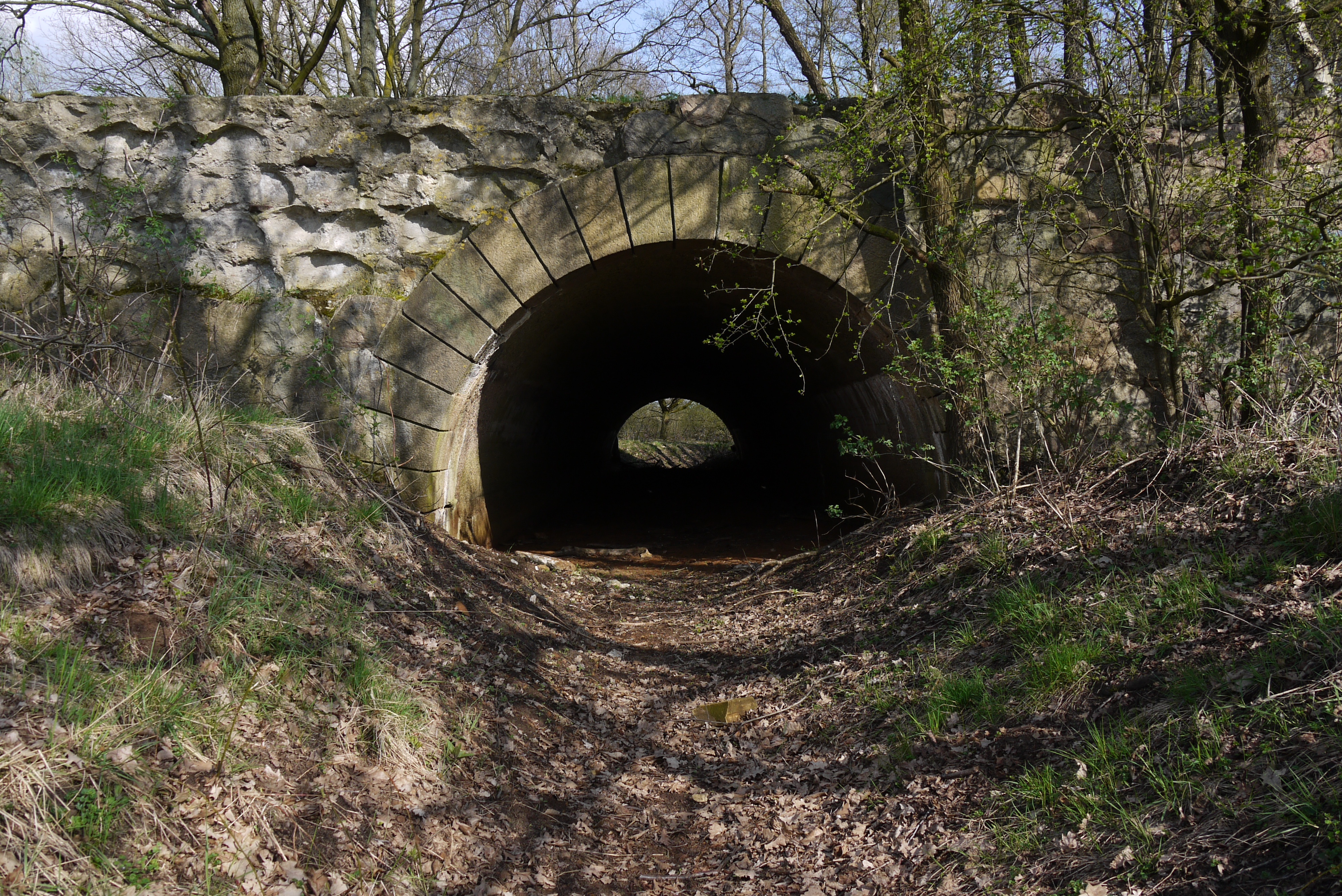 Reichsautobahn Line 24 - Passages and bridges in the Wedemark